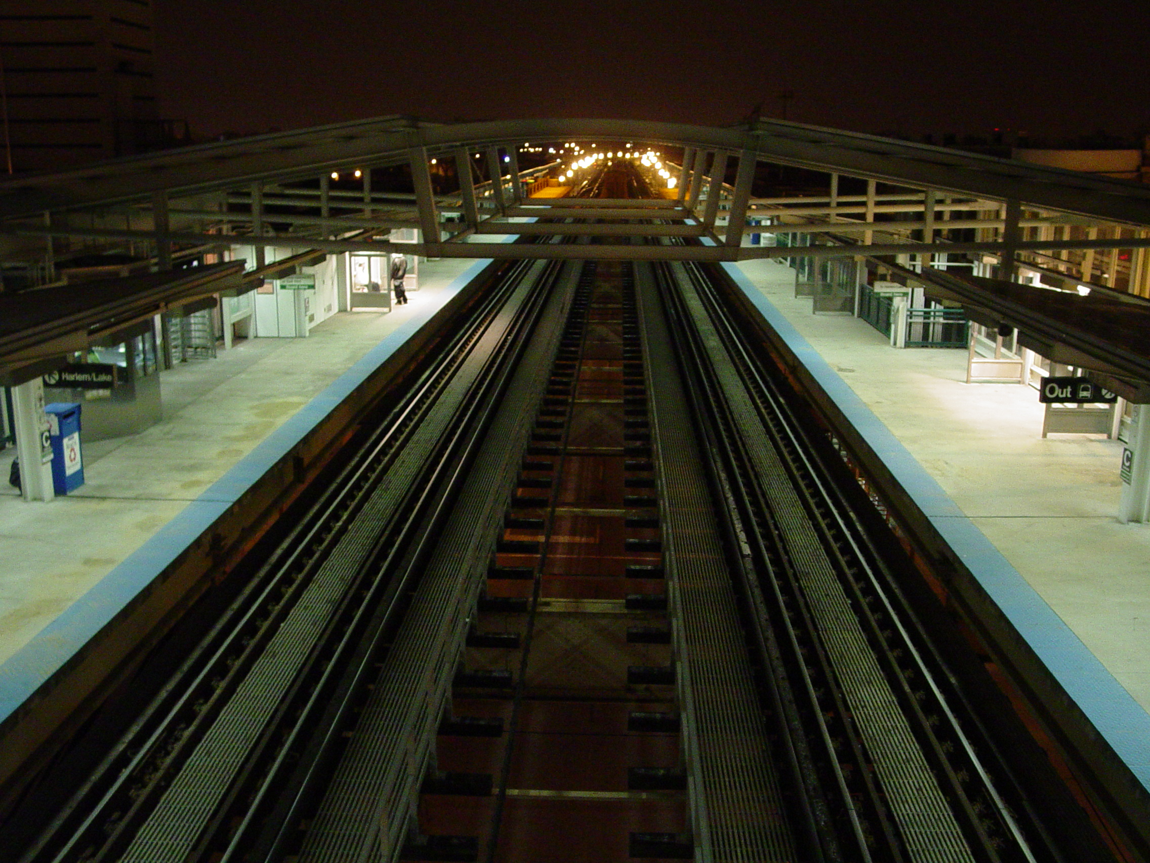 California station on the Green Line in Chicago